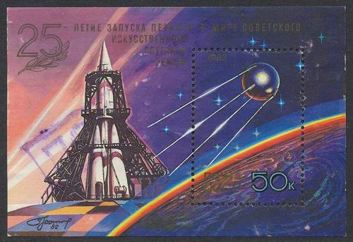 Stamp of USSR